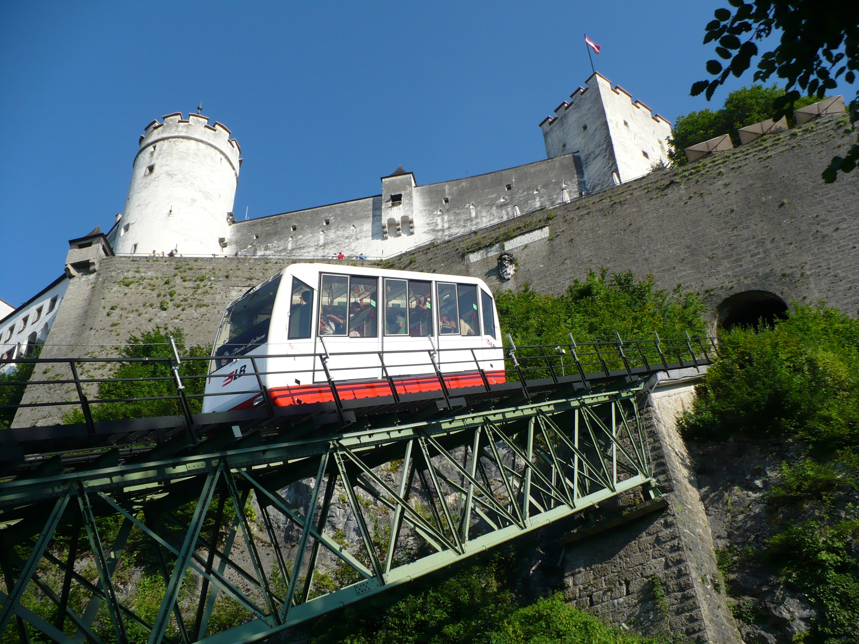 Car on the upper section of the Festungsbahn in Salzburg.